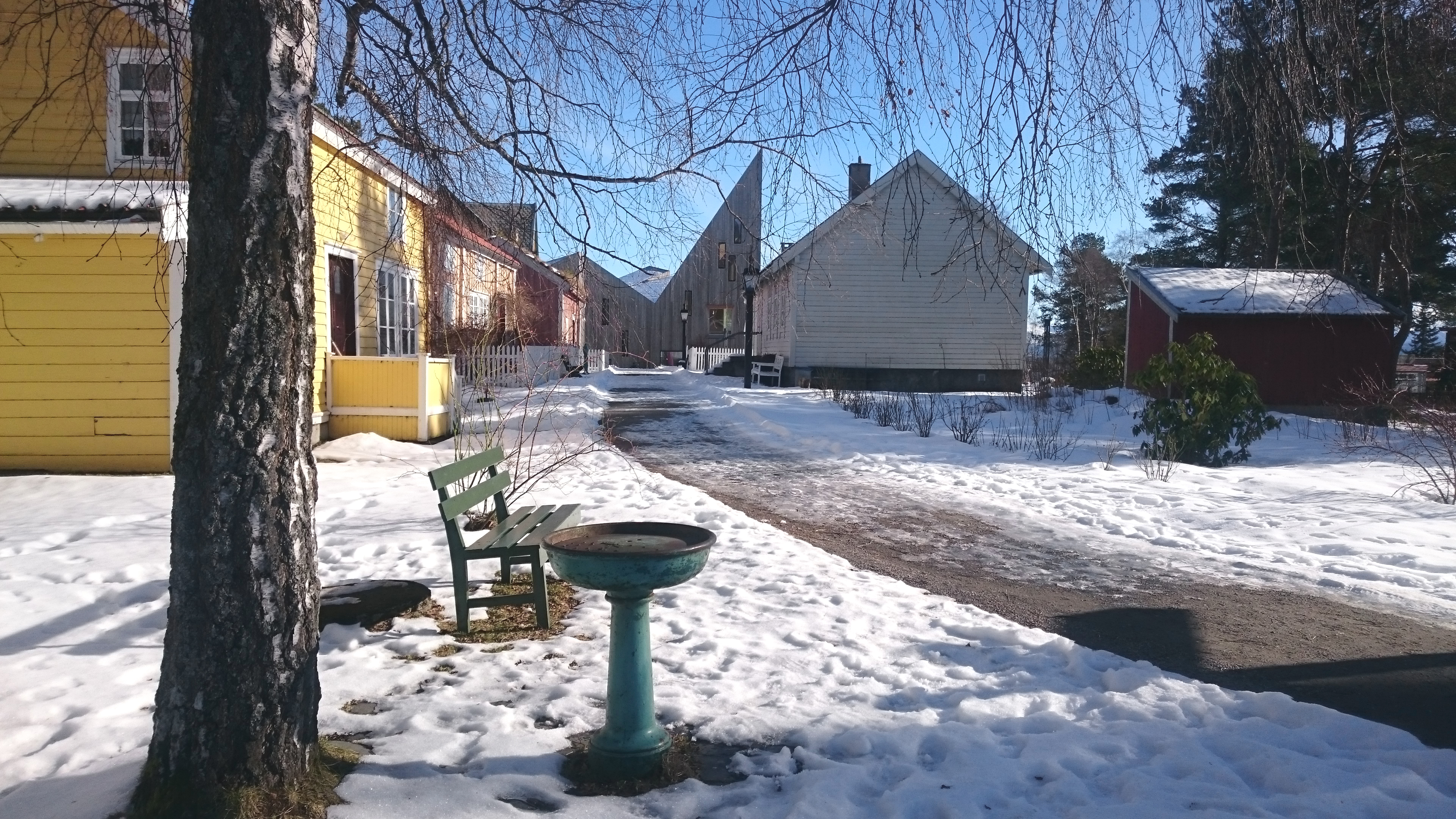 Romsdalsmuseet in Molde, Norway. The "Bygata" and administrationbuilding "Kronen" in the end of the street. 2017.03.05